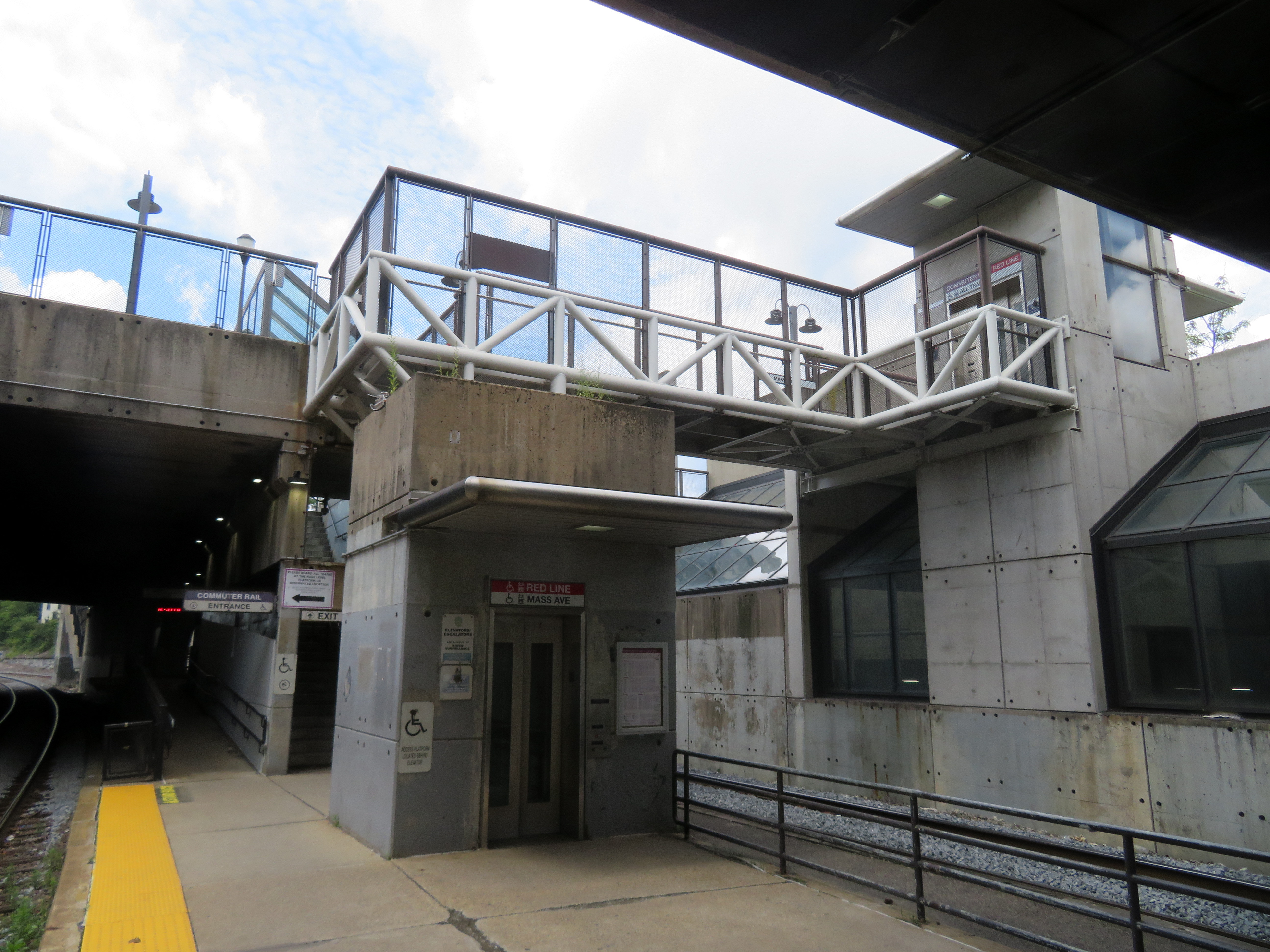 Two elevators at Porter station in July 2019. The left elevator connects the commuter rail platform to the fare lobby and is original to the station. The right elevator, installed in 2012, connects Massachusetts Avenue to the fare lobby.